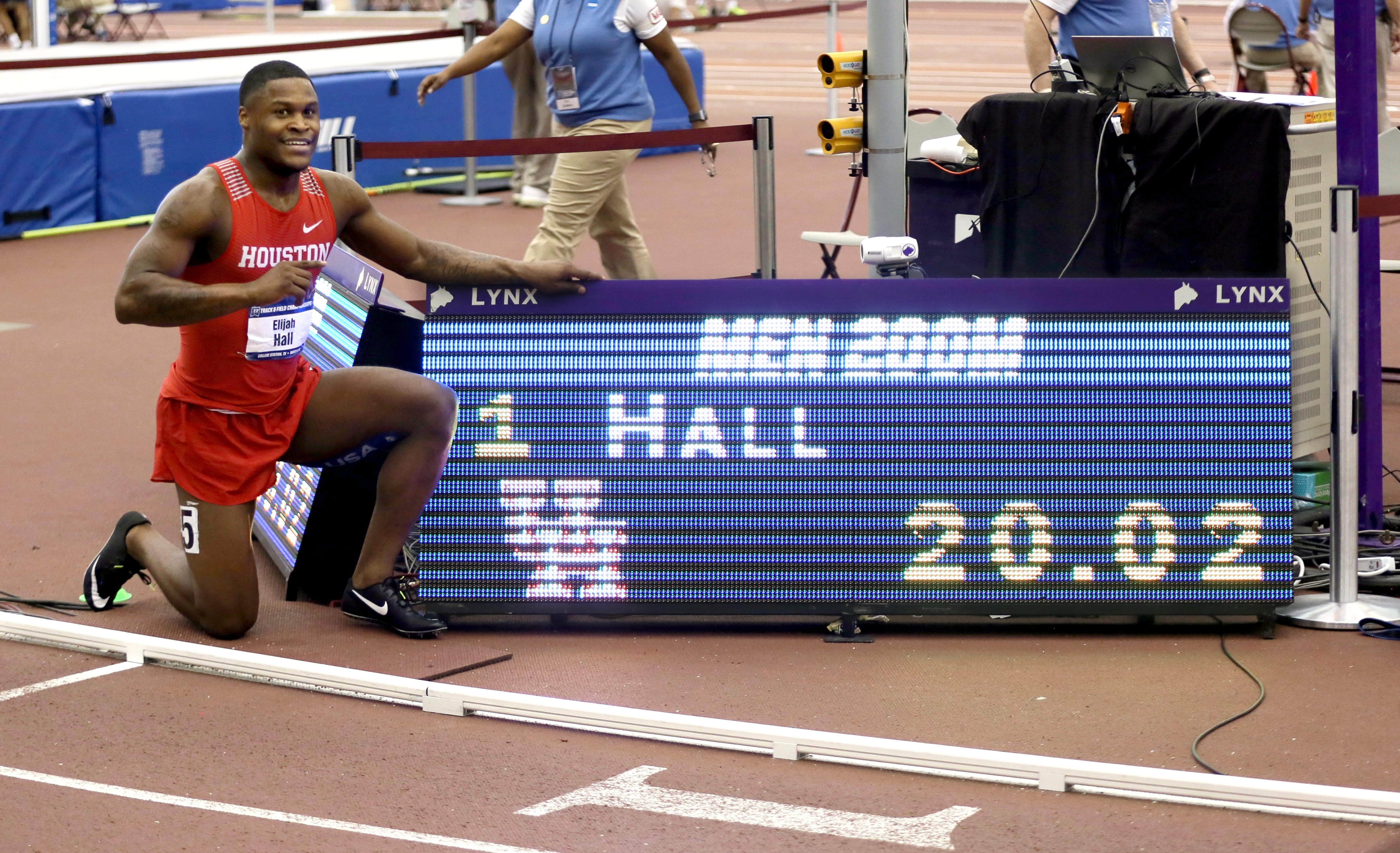 Elijah Hall posing after setting an indoor American and collegiate record for 200m of 20.02 at the 2018 NCAA indoor championships